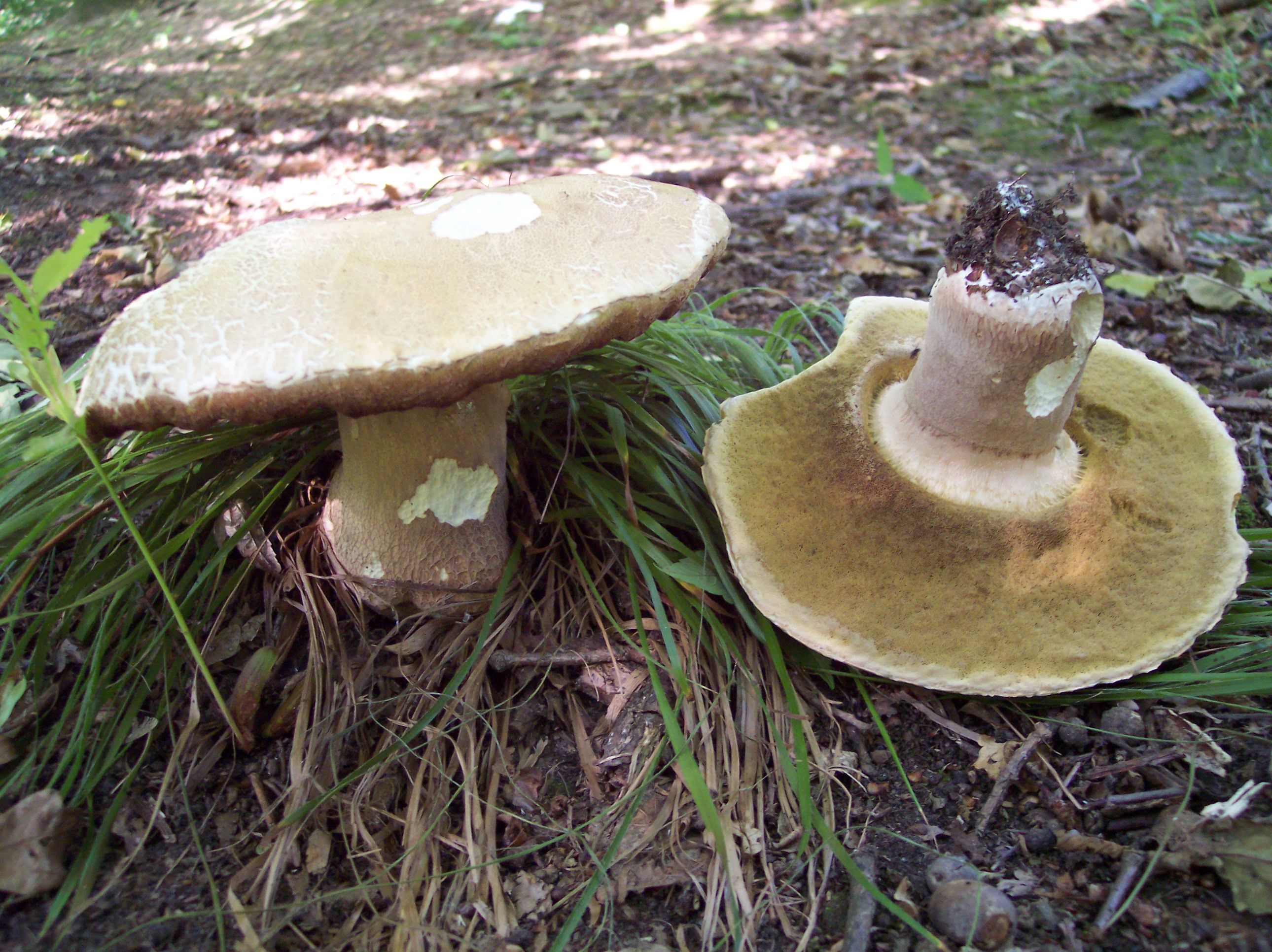 summer cep (Boletus reticulatus)